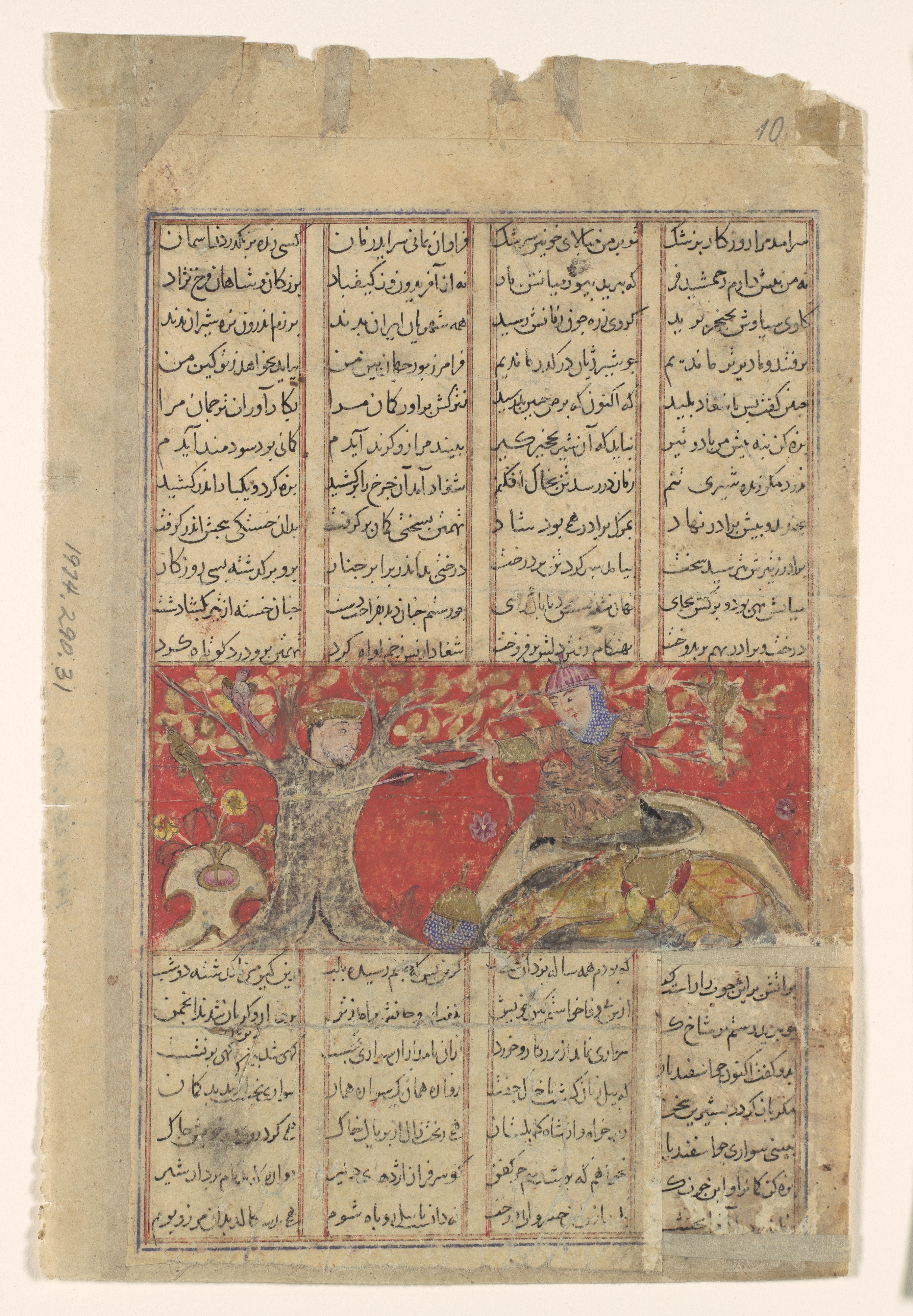 Folio from an illustrated manuscript; Codices